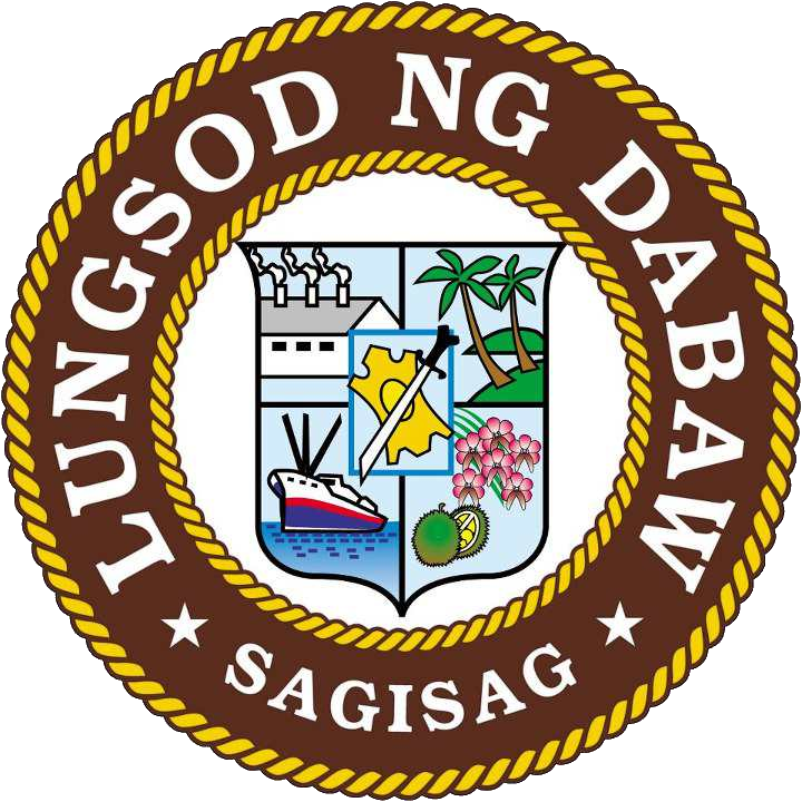 Davao City official seal.